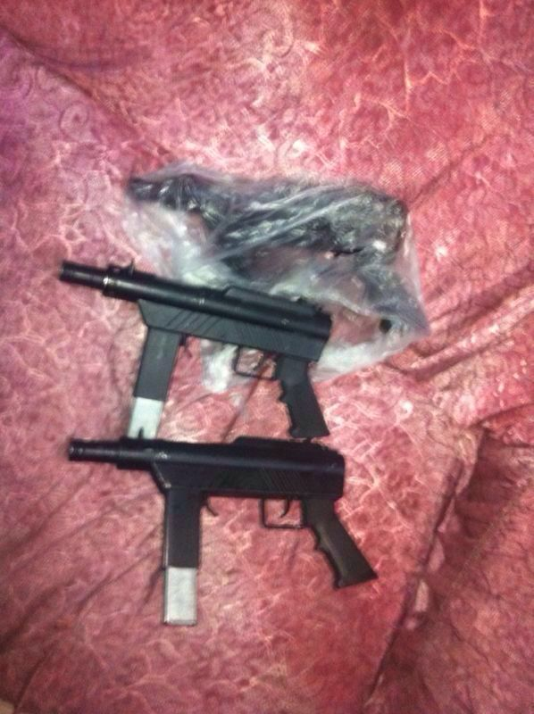 On the night of June 16th, 2014, IDF forces searched the city of Nablus as a part of Operation Brother’s Keeper -- the operation to find the three kidnapped Israeli teens. The forces found hundreds of concealed weapons and detained more than 40 terrorist suspects. These are the weapons they found in the possession of Palestinians. Read more The Israel Defense Forces Facebook The Israel Defense Forces blog Follow us on Twitter